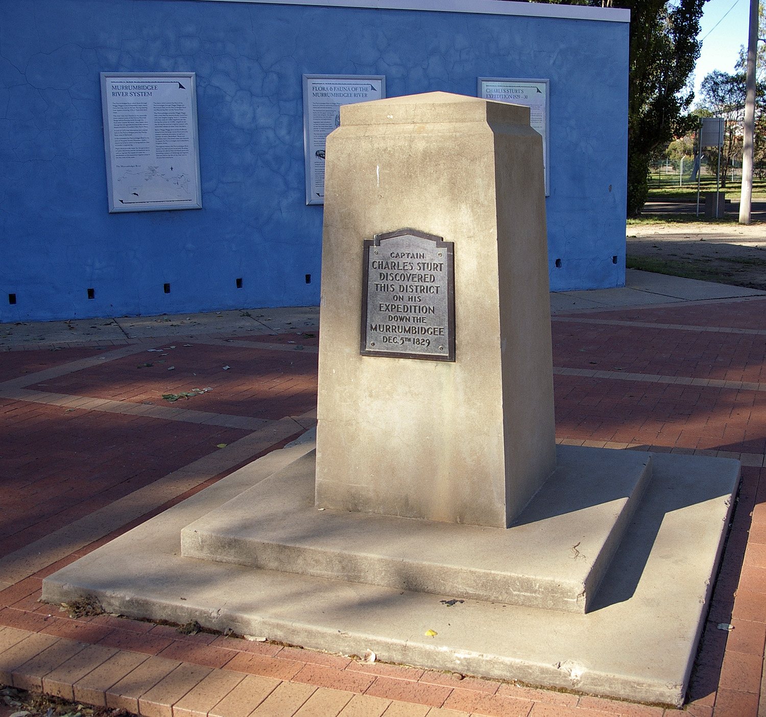 Charles Sturt Monument located at Wagga Beach in Wagga Wagga, New South Wales, Australia.